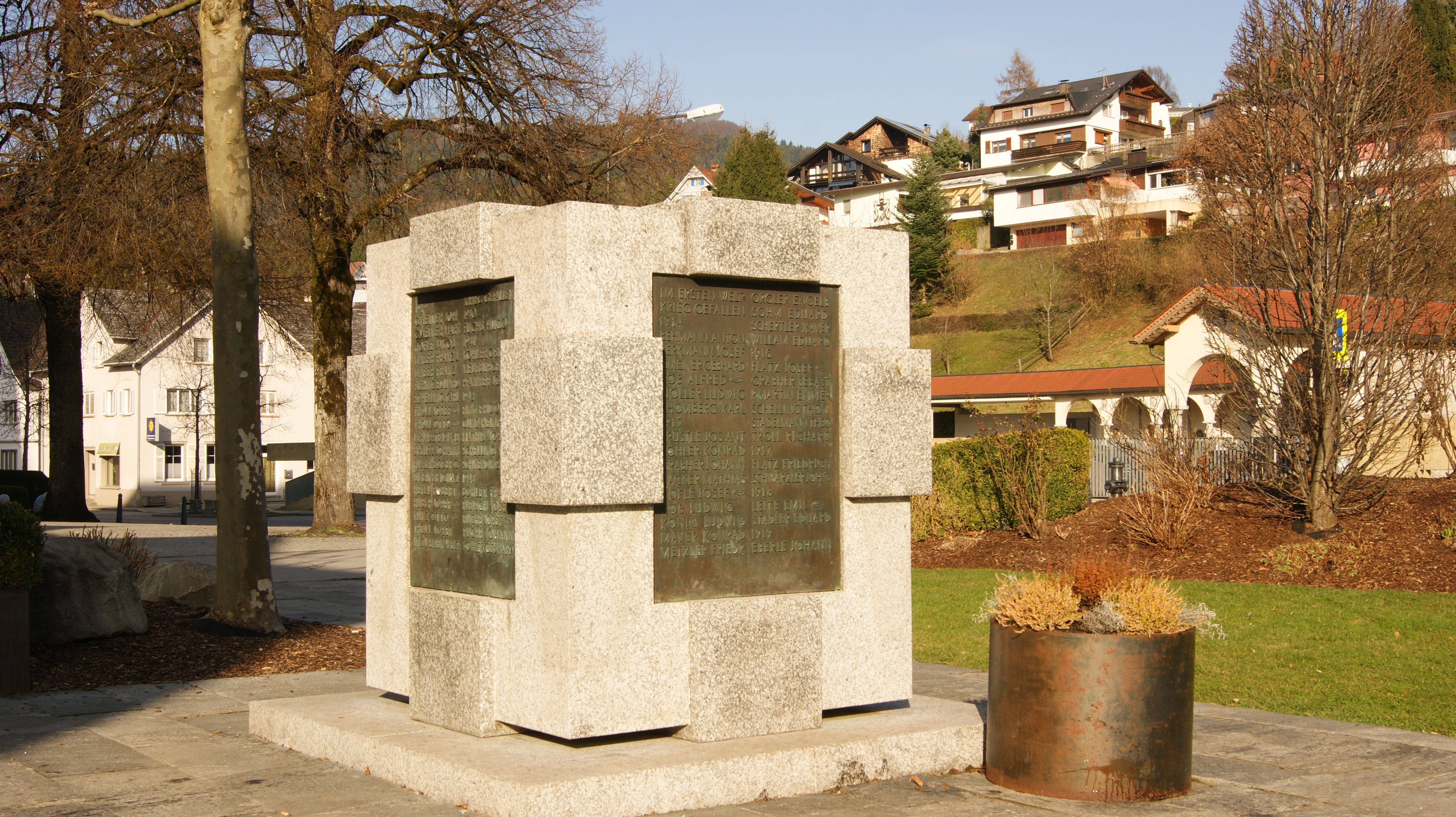 Cubic War Memorial in Schwarzach (Vorarlberg, Austria) with stylized cross by Emil Gehrer (1913-1992).